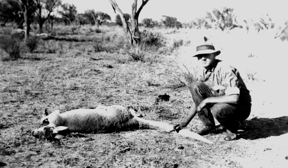 Kangaroo hunting, Thylungra, 1924. Man posing with a dead kangaroo at Thylungra in 1924. The man is holding a knife, suggesting he may be about to skin the animal.